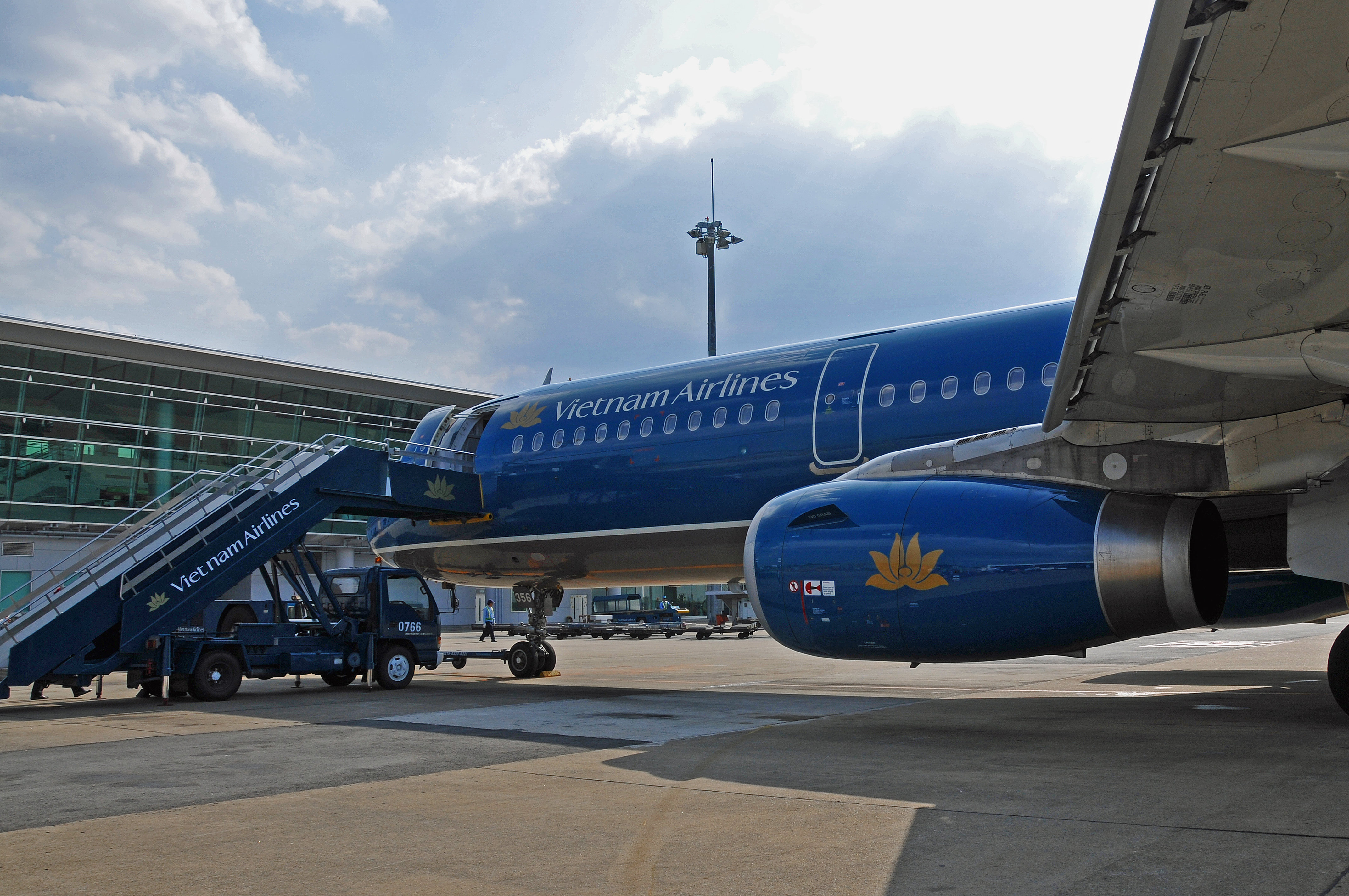 Airbus - A321 used by Vietnam Airlines, my flight to Danang. Vietnam